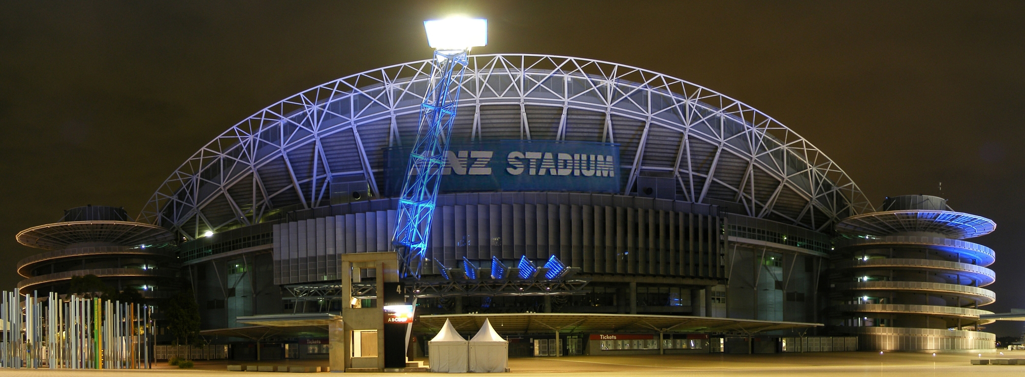 Olympic Stadium Sydney